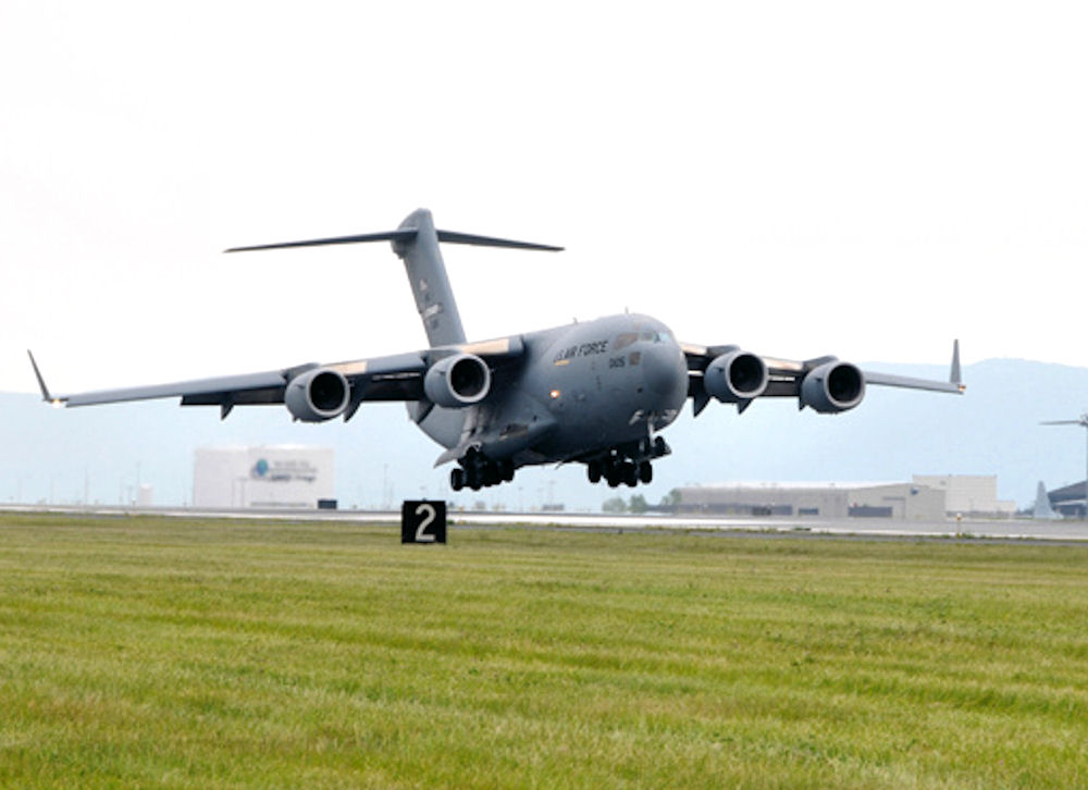 Boeing [NYSE: BA] joined the U.S. Air National Guard at Stewart Air National Guard Base (ANGB) on Aug. 6 to commemorate the base’s transition to the Boeing C-17 Globemaster III airlifter. In this photo, the first C-17 assigned to the 105th Airlift Wing lands at the base on July 18. The 105th Airlift Wing is transitioning from the C-5A Galaxy and will be assigned eight C-17s by May 2012. U.S. Air Force photo by Tech. Sgt. Michael O’Halloran